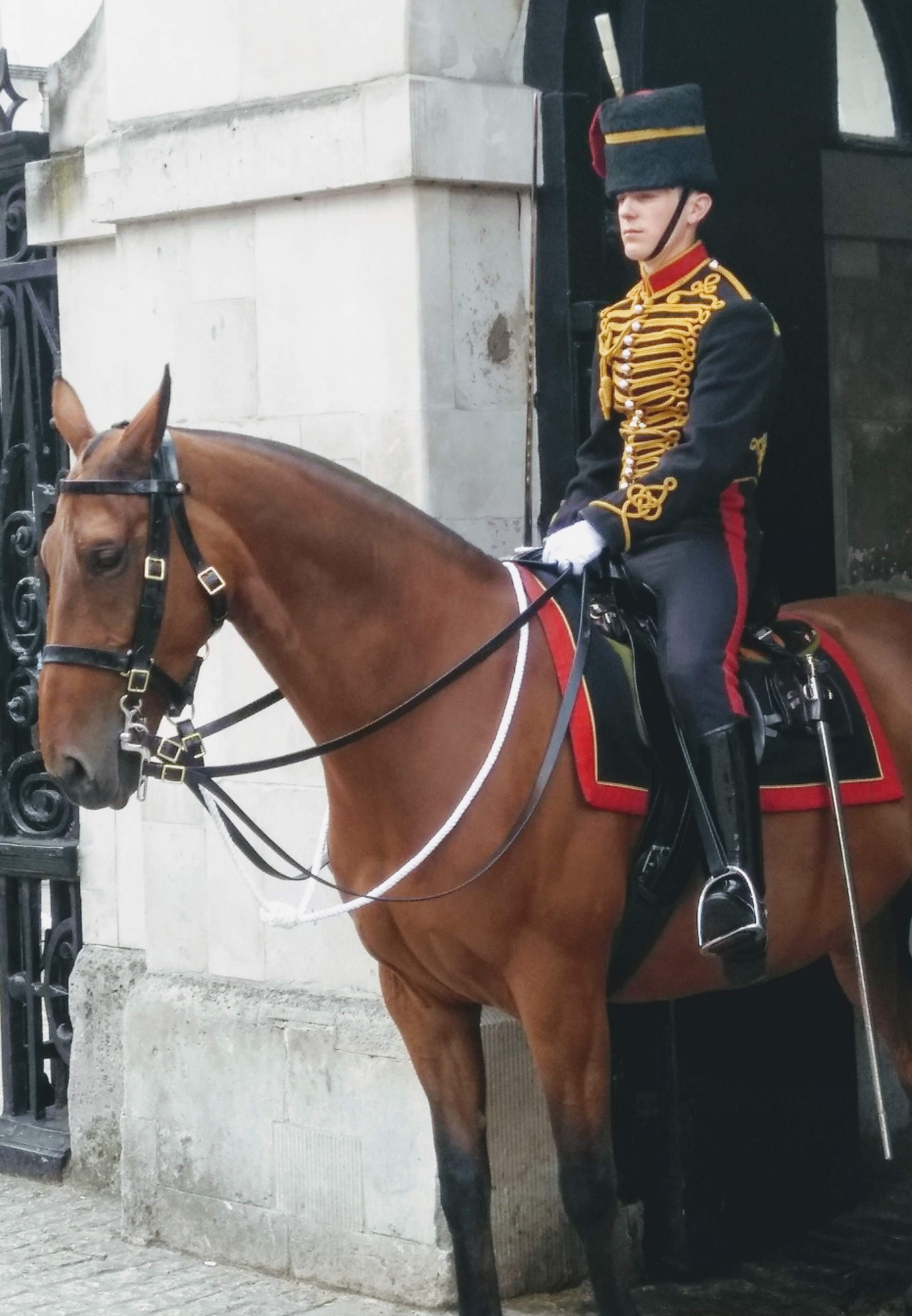 A sentry of the King's Troop, Royal Horse Artillery mounting the Queen's Life Guard at Horse Guards Parade in London in 2019